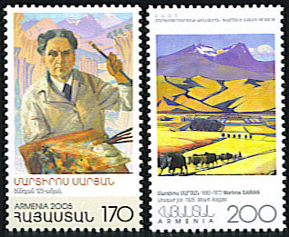 Stamp of Armenia